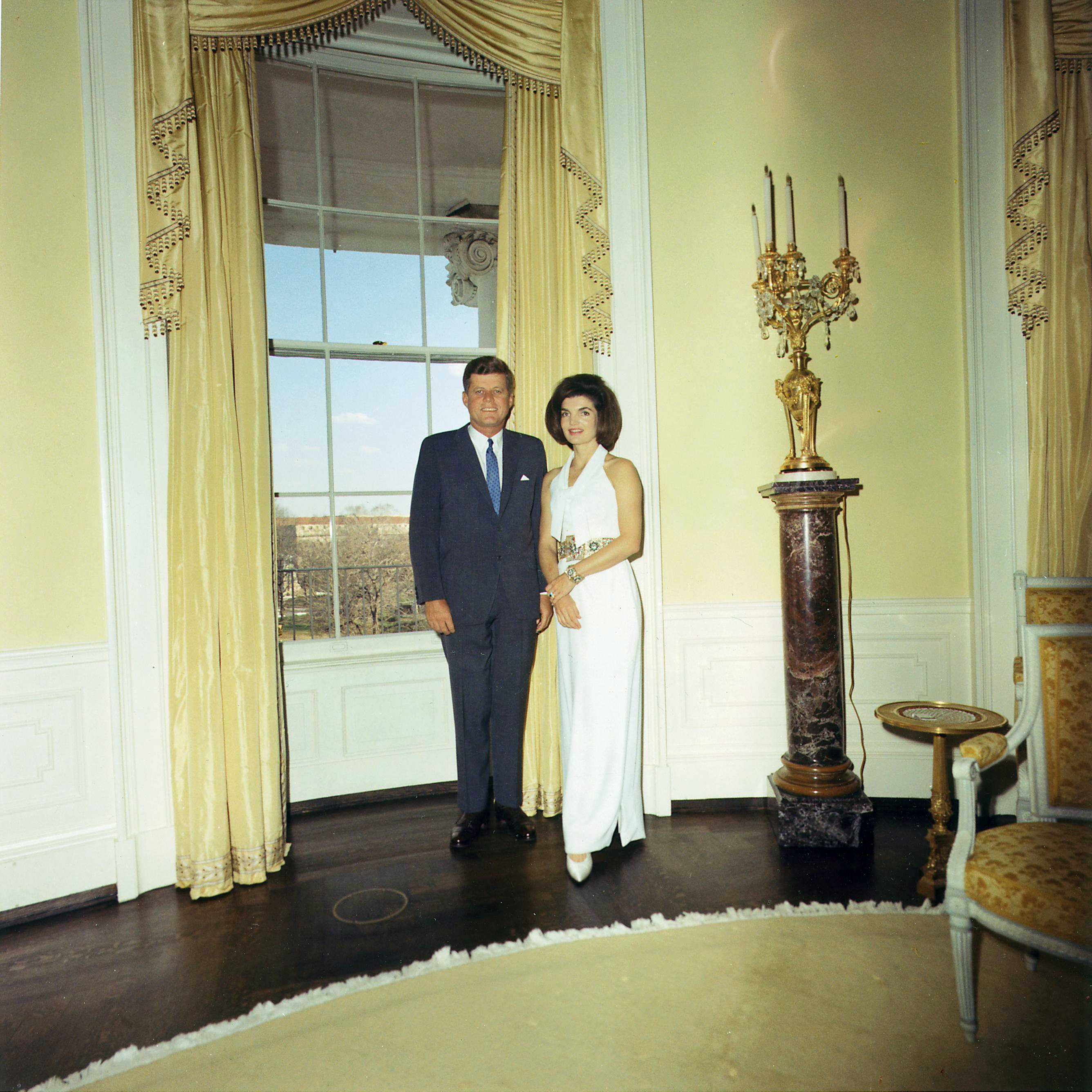 President John F. Kennedy and Jacqueline Kennedy in the Yellow Oval Room of the White House.